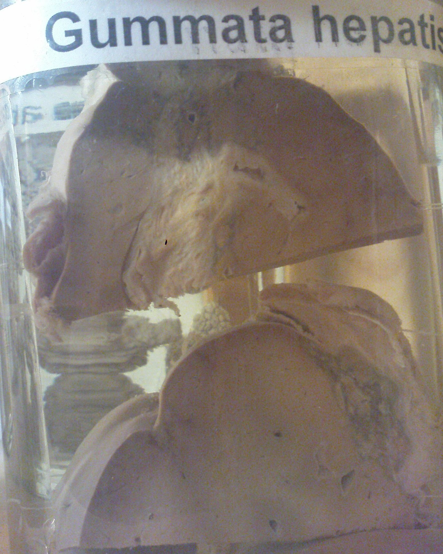 Preparation "gummata hepatis" from the exhibition in the corridor of the Collegium Medicum building of the Jagiellonian University on Grzegórzecka 16 in Cracow.